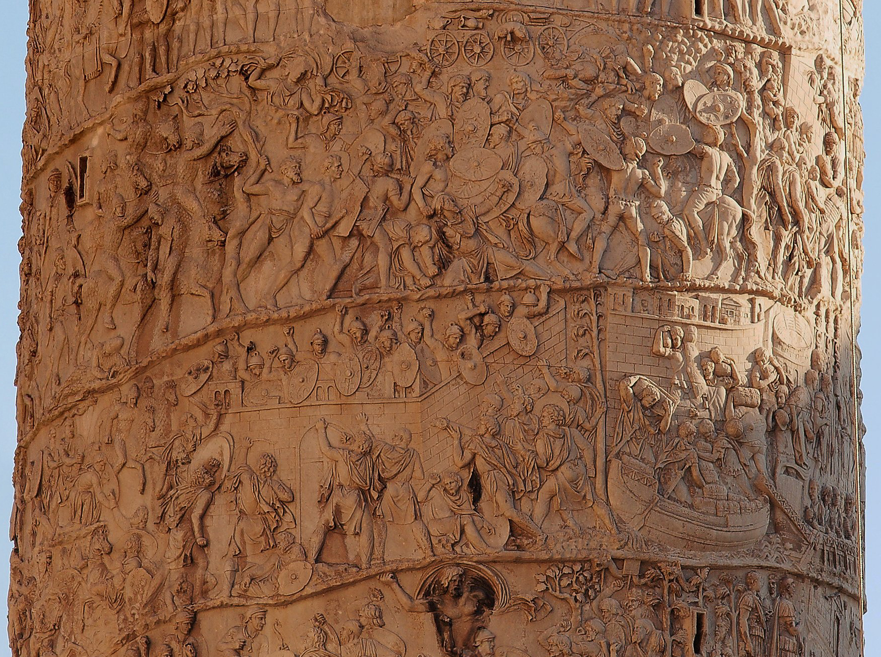 Detailed view of Trajan's column. Panorama from different images, exif taken from the middle one. Cut into pieces by user:sailko